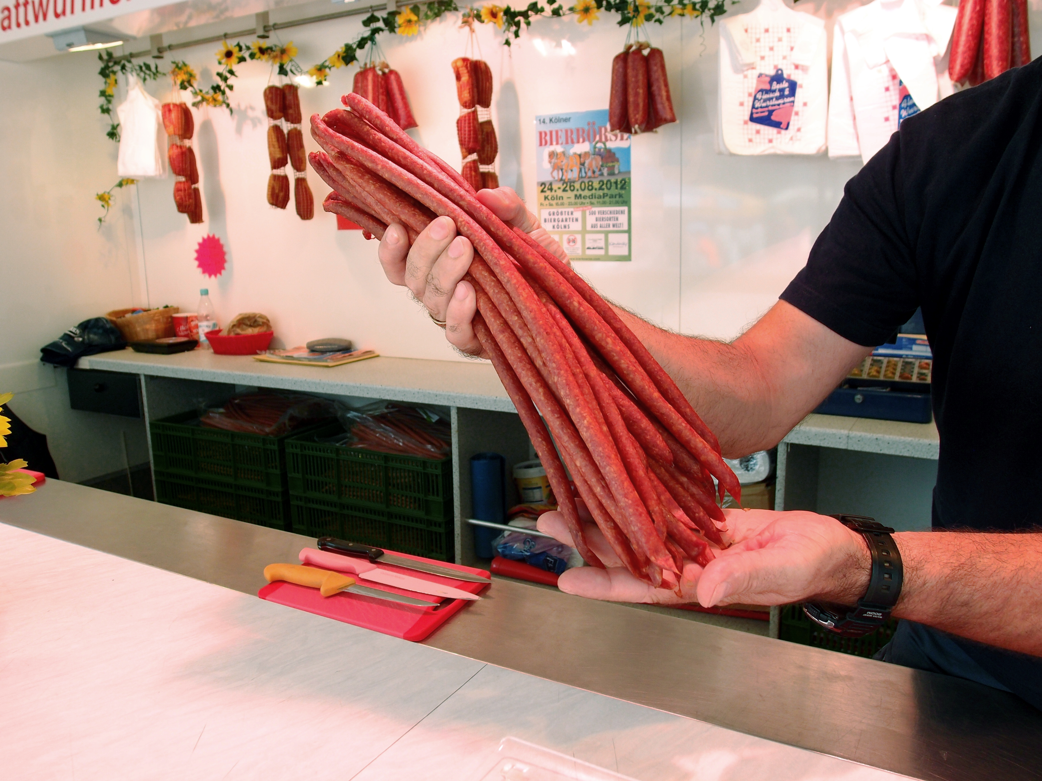 "Wattwürmer" auf der Kölner Bierbörse (2012), Mediapark * Datum: 24.08.2012 * Urheber: M. Pfeiffer alias Benutzer:Gordito1869 * Quelle: privates Fotoarchiv des Urhebers